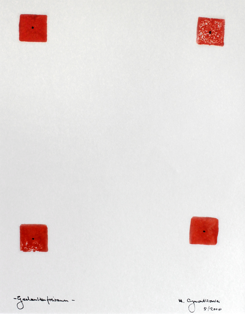 Gedankenfreiraum - Work by Heinz Cymontkowski